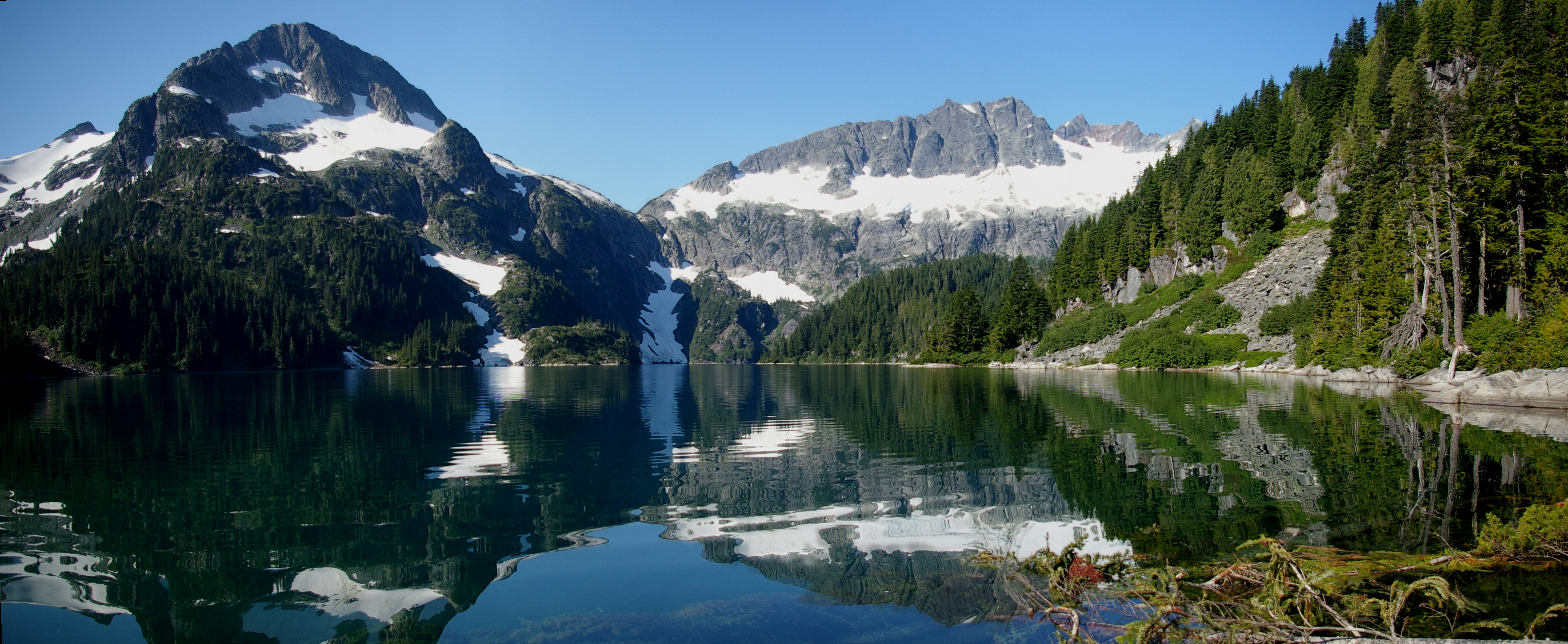 Mount Niobe (left), Lydia Mountain, and Lake Lovely Water in British Columbia, Canada